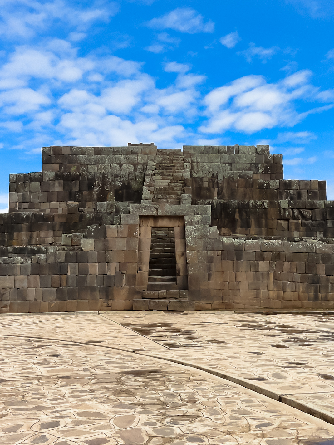 Ushnu - Inca Pyramid - Willkawaman, Ayacucho, Peru.